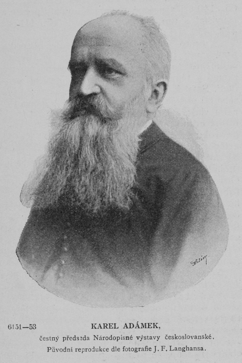 Portrait of Karel Adámek (1840 - 1918), Czech writer, honorary chairman of Czech & Slavonic Ethnographic Exhibition in Prague 1895.